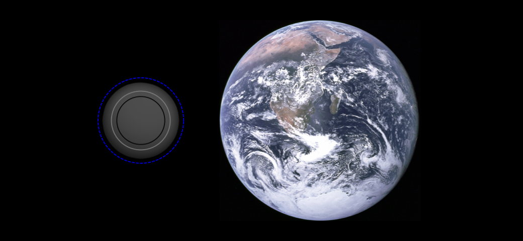 Comparison of several possible sizes for the exoplanet PSR B1257+12 A with the Solar System planet Earth, using approximate models of planetary radius as a function of mass[1] for several possible compositions, based on mass reported in the Open Exoplanet Catalogue[2] as of 2010-09-30. Models include: water world with a rocky core, composed of 75% H2O, 3% Fe, 22% MgSiO3 hypothetical pure water (ice) planet, the largest size for PSR B1257+12 A without a significant H/He envelope rocky terrestrial "Earth-like" planet, composed of 67% Fe, 32.5% MgSiO3 hypothetical pure iron planet, PSR B1257+12 A's theoretical smallest size PSR B1257+12 A is not likely to be smaller than the iron planet, and will be considerably larger than the water planet if significant H or He is present. For non-transiting planets, all modeled sizes will be underestimates to the extent that the planet's actual mass is larger than the reported minimum mass. ↑ Seager, S.; M. Kuchner, C. A. Hier-Majumder and B. Militzer (2007). "Mass–radius relationships for solid exoplanets". The Astrophysical Journal 669: 1279–1297. Retrieved on 2010-08-27. ↑ Open Exoplanet Catalogue (2010-09-30). Retrieved on 2010-09-30.